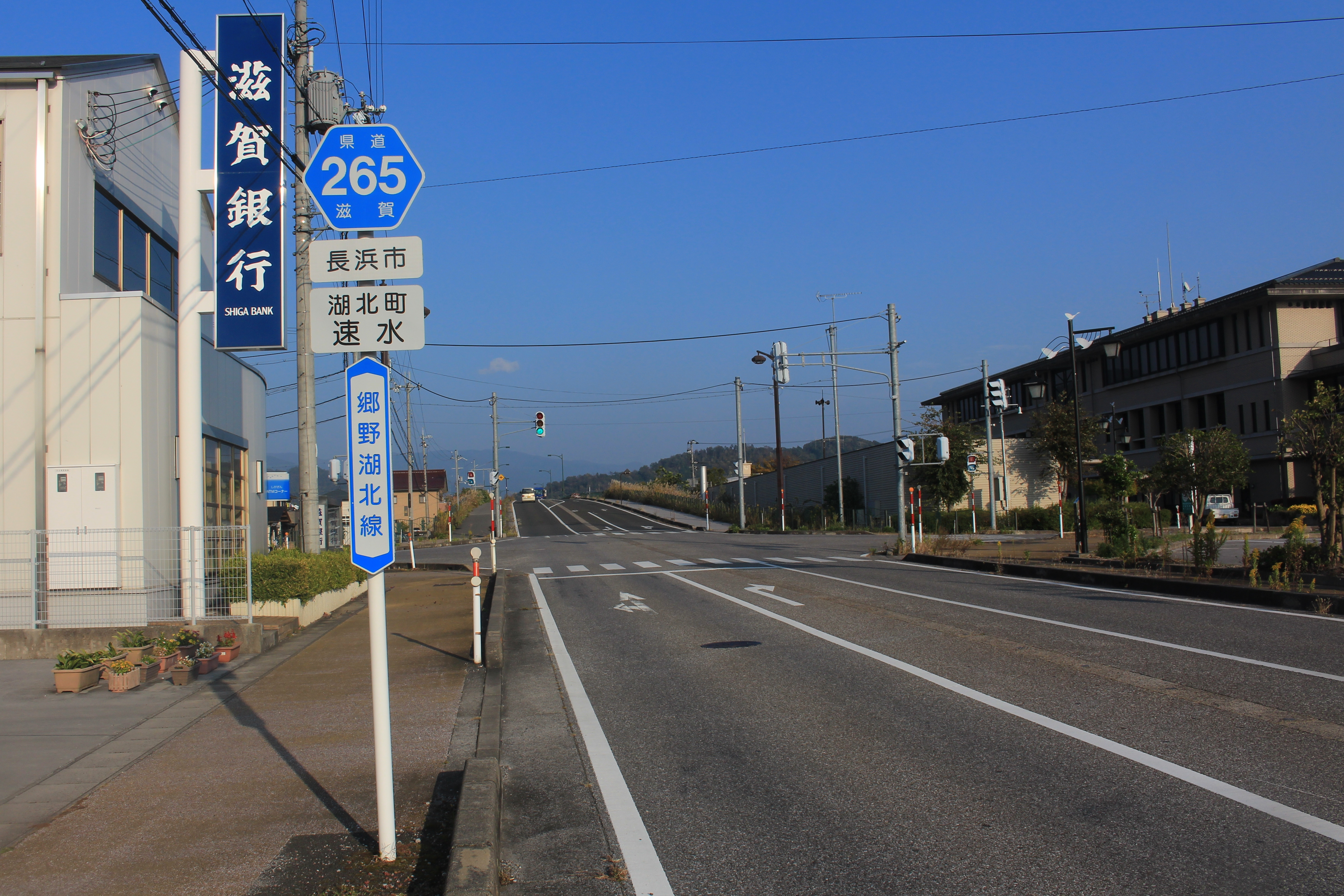 Shiga prefectural road 265 in Nagahama, Shiga Prefecture, Japan.